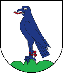 Coat of arms of Courrendlin, Canton of Jura, Switzerland (Source: Symbol on the wall of the municipal administration)